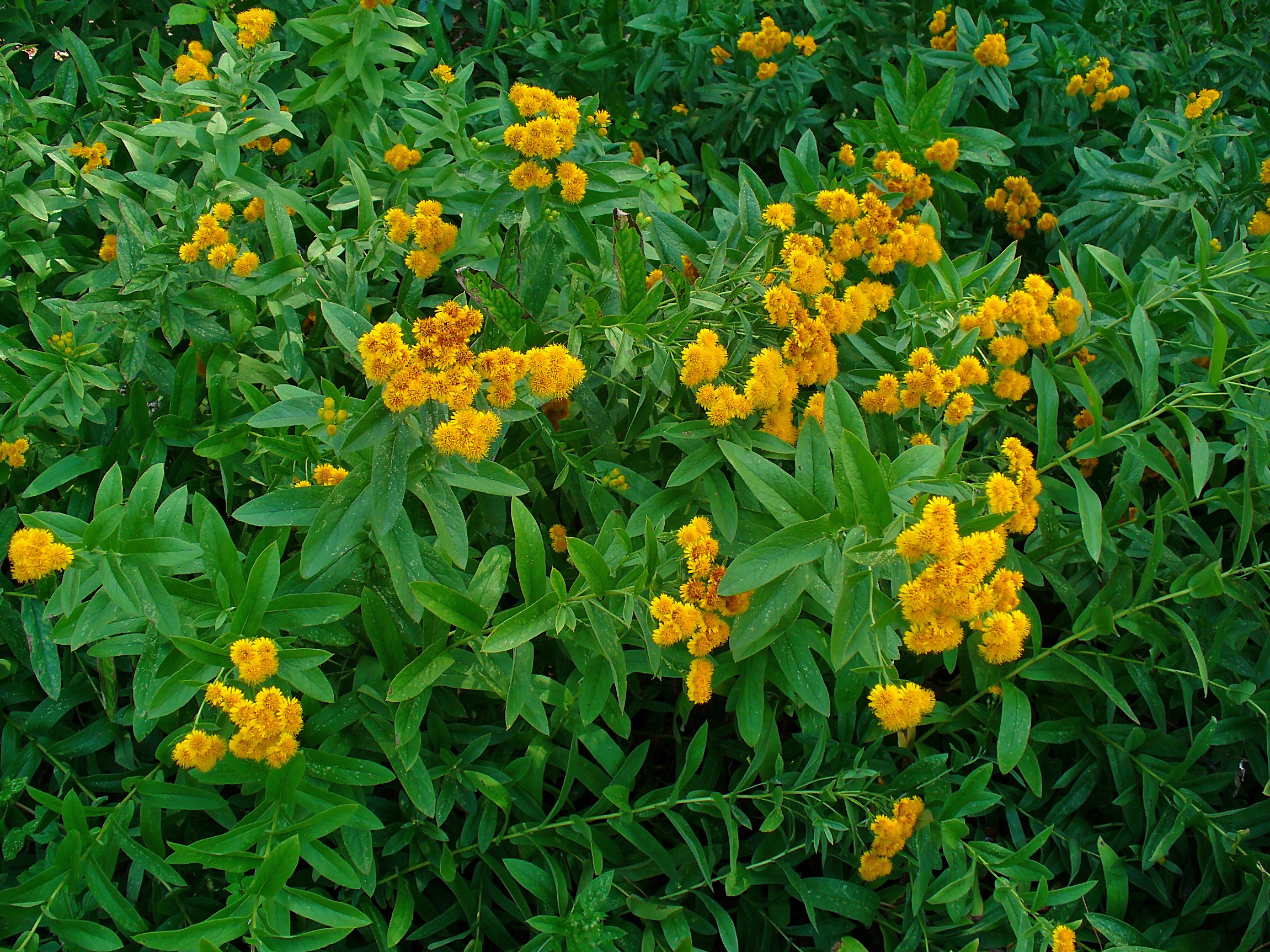 Inula germanica, Asteraceae, German Inula, habitus; Botanical Garden KIT, Karlsruhe, Germany.